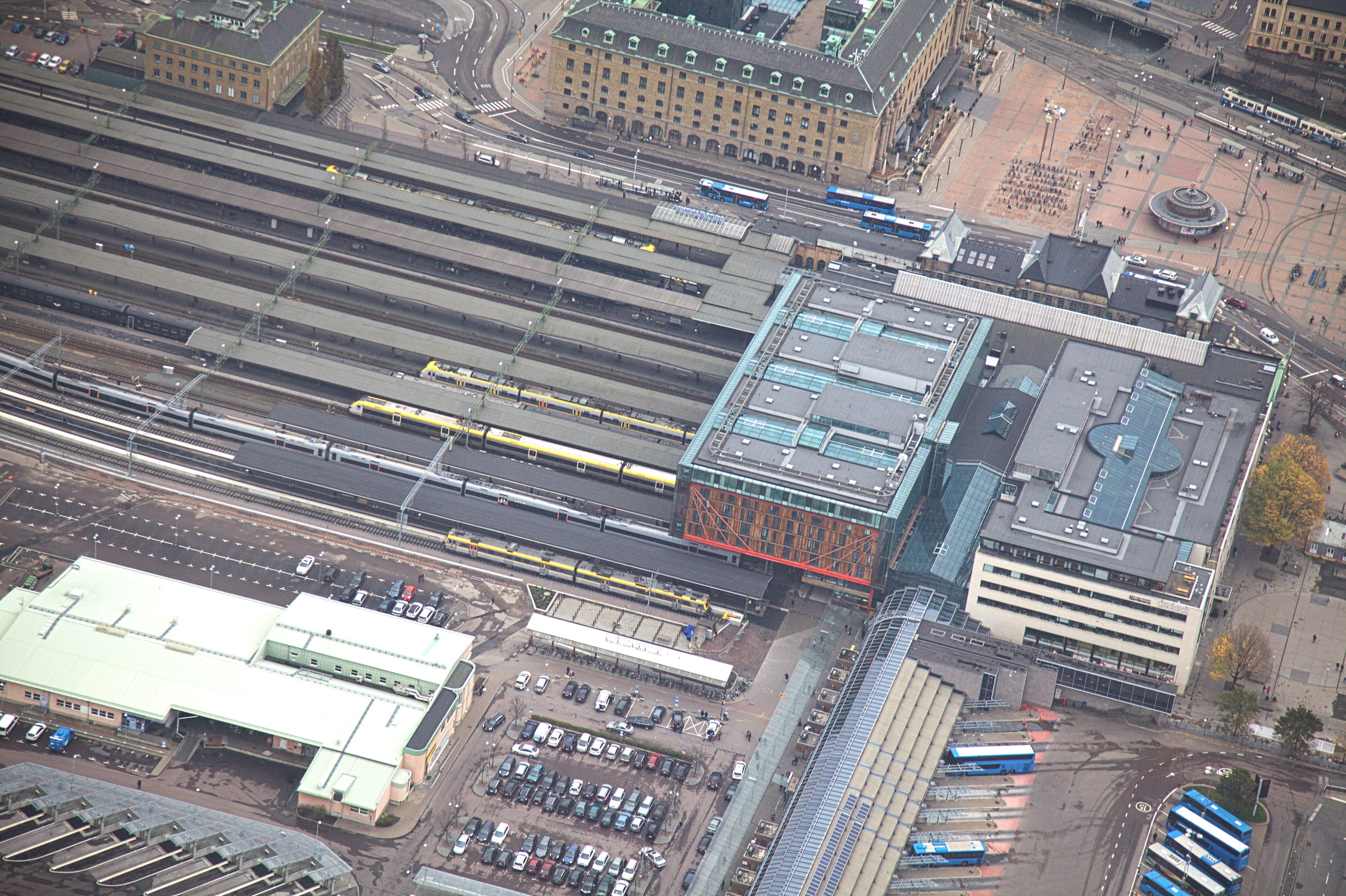 Photo taken on a helicopter over Gothenburg